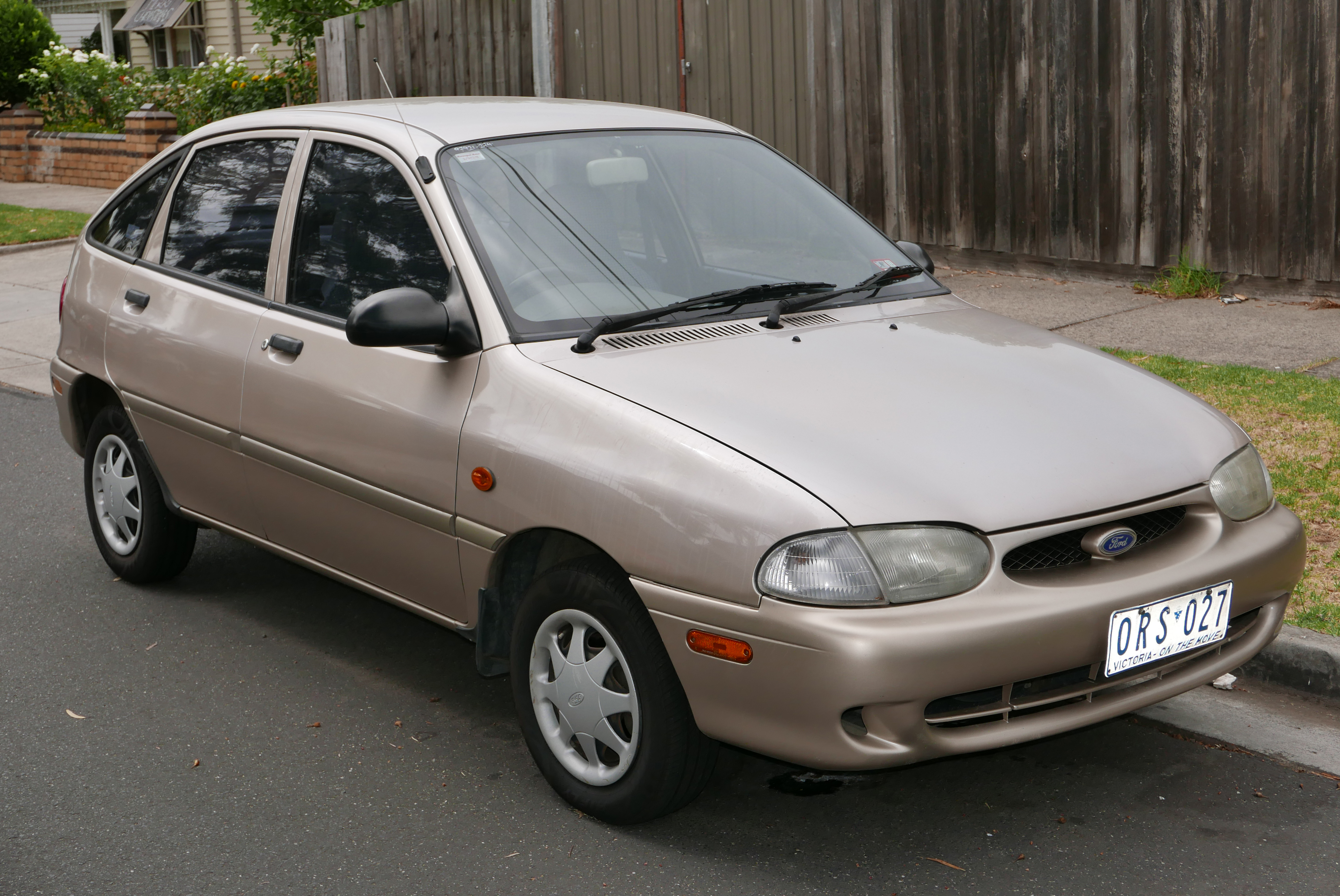 1997 Ford Festiva (WD) GLi 5-door hatchback. Photographed in Pascoe Vale, Victoria, Australia. Vehicle registration enquiry results Jurisdiction Victoria Registration ORS027 Chassis code KNADB11K5V6352062 Engine code B3237261 Compliance date 1997-10 Year of manufacture 1997